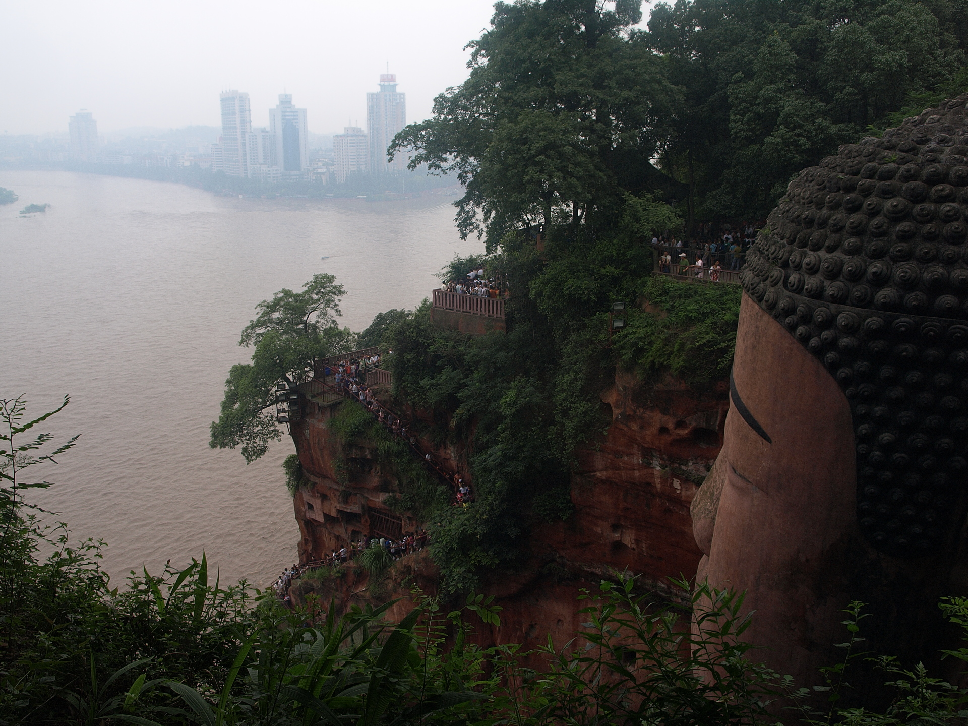 Leshan Giant Buddha and Min River and Leshan town, Sichuan, China.